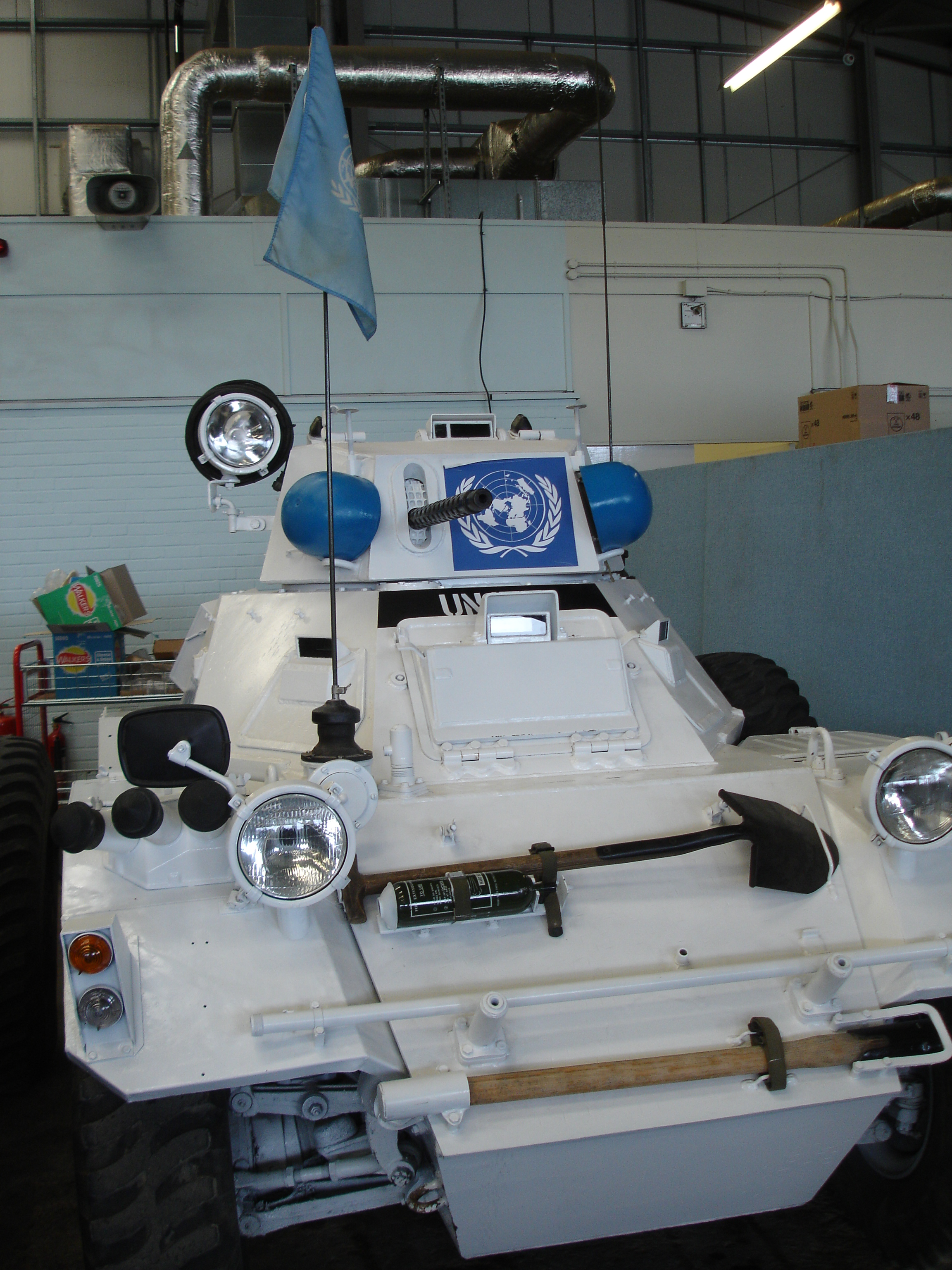 United Nations Daimler Ferret peacekeeping light armed mechanised vehicle at Bovington Tank Museum.